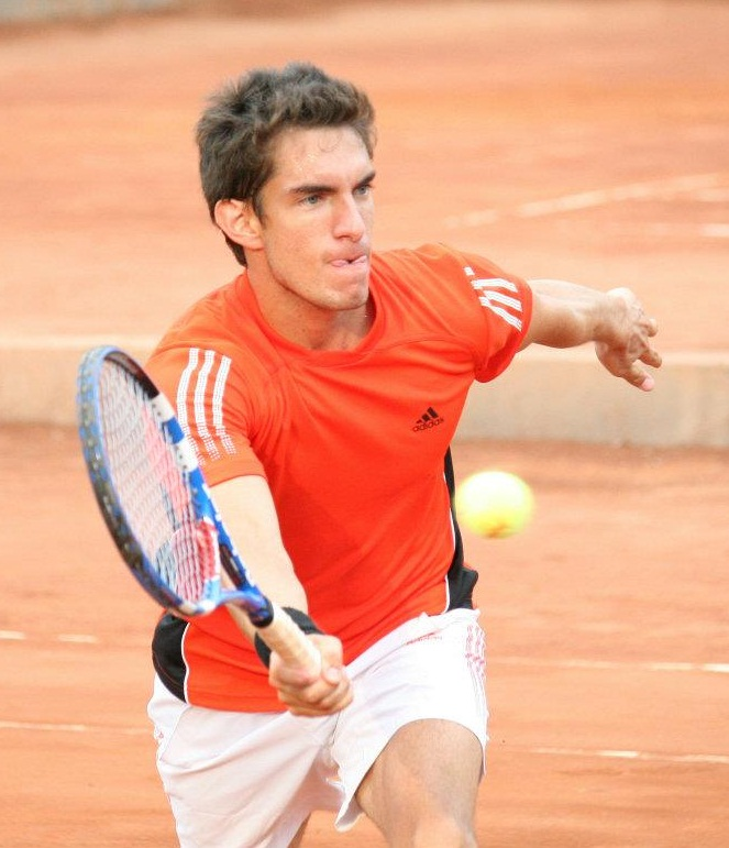 Mauricio Echazu of Peru reaches for a forehand volley during a practice session ahead of the 2012 Americas Zone Group I 1st round Davis Cup tie Peru v. Uruguay